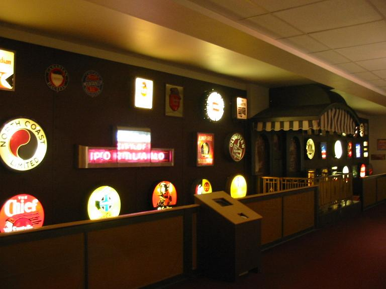 A display of several railroad drumheads at the National Railroad Museum in Green Bay Photo by Sean Lamb (User:Slambo), April 26, 2004